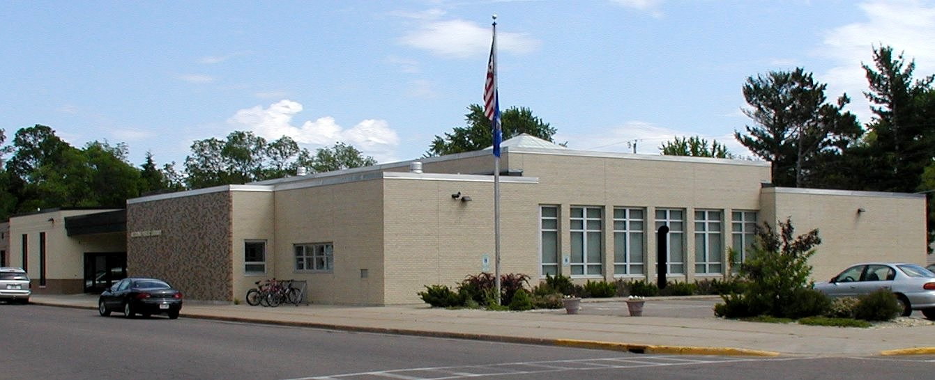 Altoona Wisconsin (town hall)